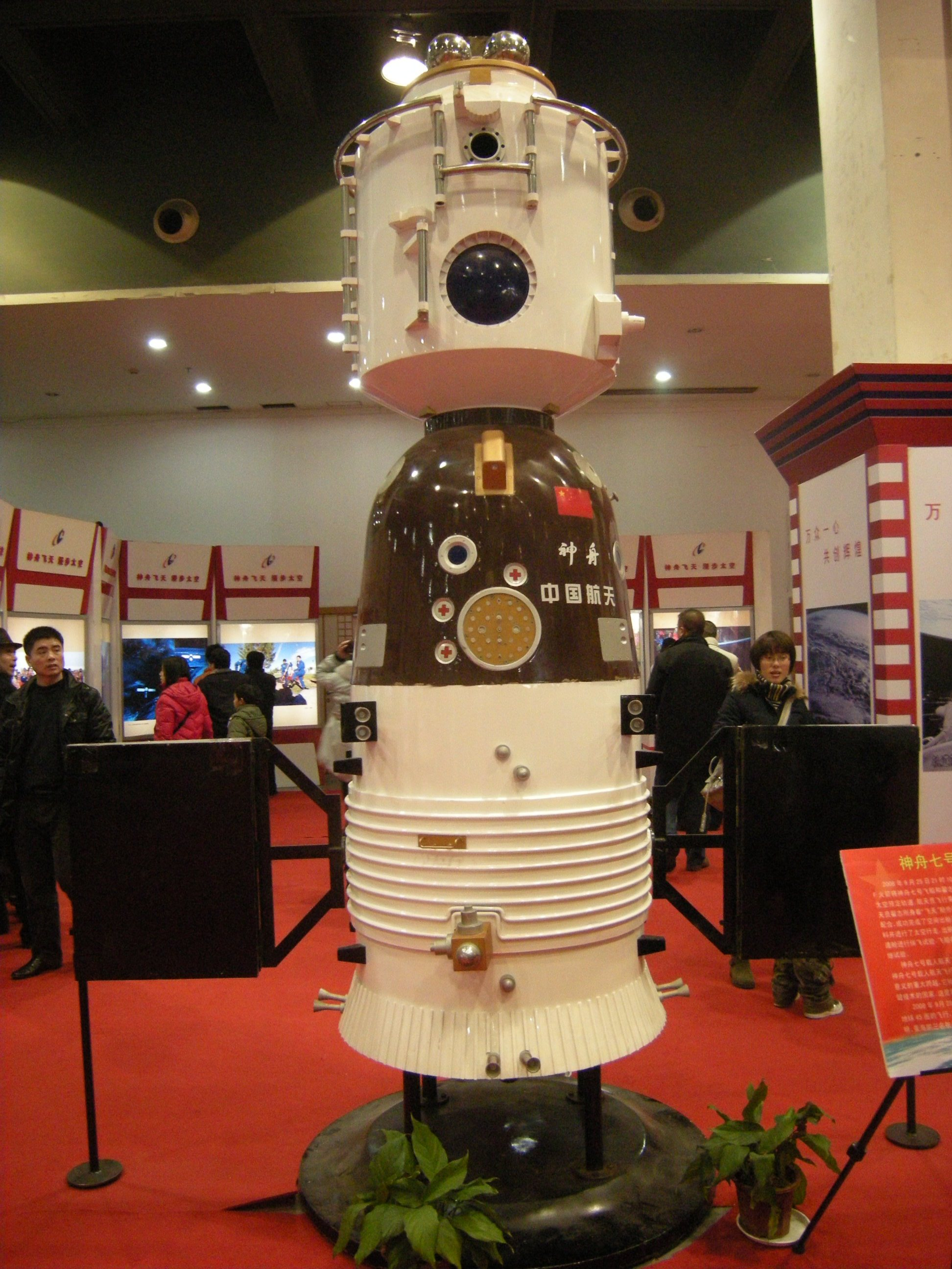 Shenzhou 7 spacecraft model（1：3）